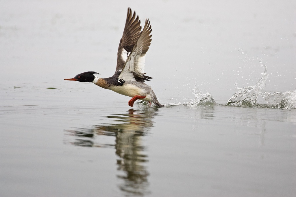 A male Red-breasted merganser in breeding plumage. In the San Diego Bay National Wildlife Refuge, on San Diego Bay in San Diego County, California. Photo Rinus Baak/USFWS − U.S. Fish and Wildlife Service Pacific Southwest Region